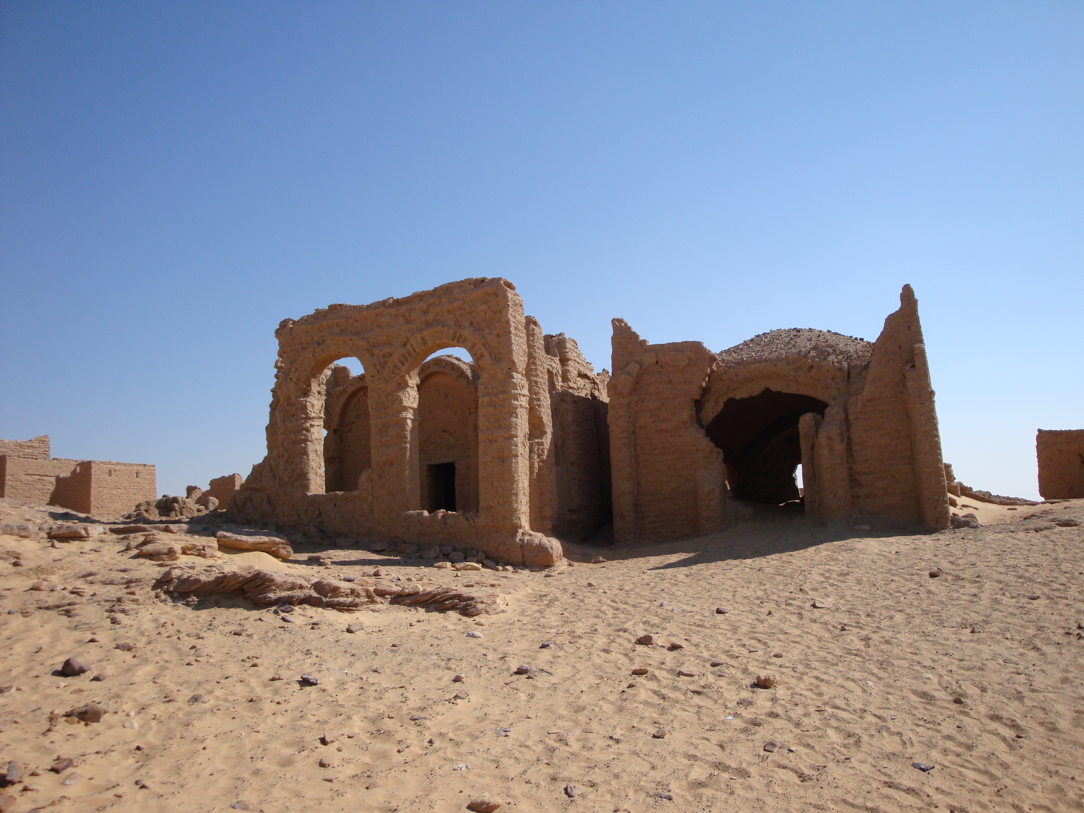 Arches and walls at Bagawat.